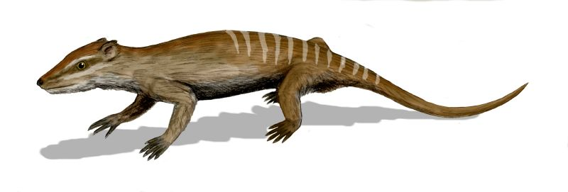 Yanoconodon allini, a primitive mammal from the Early Cretaceous of China, pencil drawing.Ref: Luo, Z., Chen, P., Li, G., & Chen, M. (2007-03). "A new eutriconodont mammal and evolutionary development in early mammals". Nature 446: 288-293.